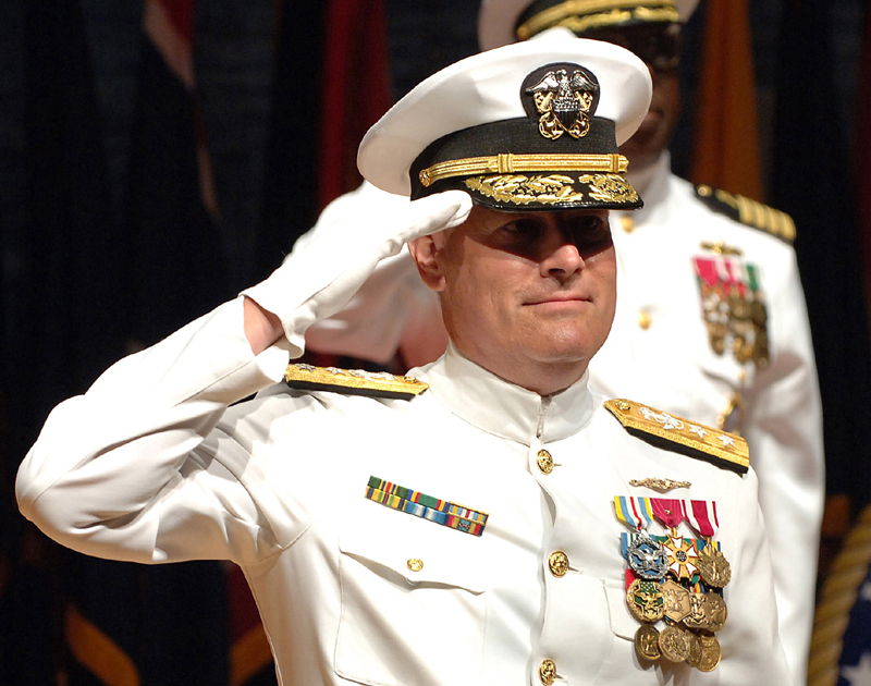 Millington, Tenn. (June 29, 2006) – Rear ADM. Jeffrey L. Fowler salutes the troops at the Change of Command ceremony for Commander, Navy Recruiting Command held at the Pat Thompson Center. Rear ADM. Joseph F. Kilkenny relieved Fowler as Commander, Navy Recruiting Command. (cropped)